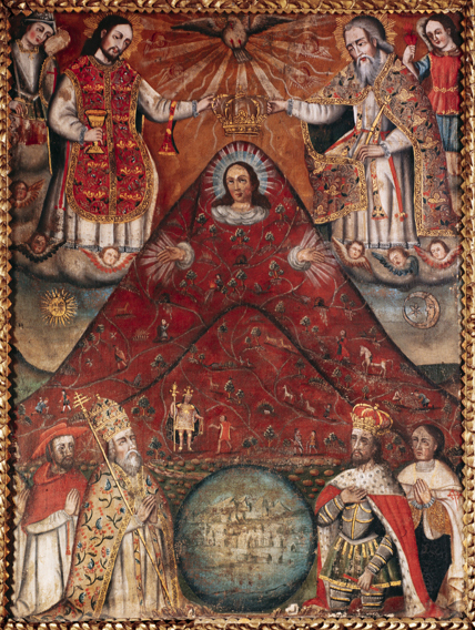 Ref.: PMa_BOL_107_Potosi; Virgen de la S; Casa Nacional de la Moneda; Potosí; Bolivia; Cultural heritage; Cultural heritage|Painting; South America; South America|Bolivia|Potosí; photo: Paul M.R.Maeyaert; © Paul M.R. Maeyaert